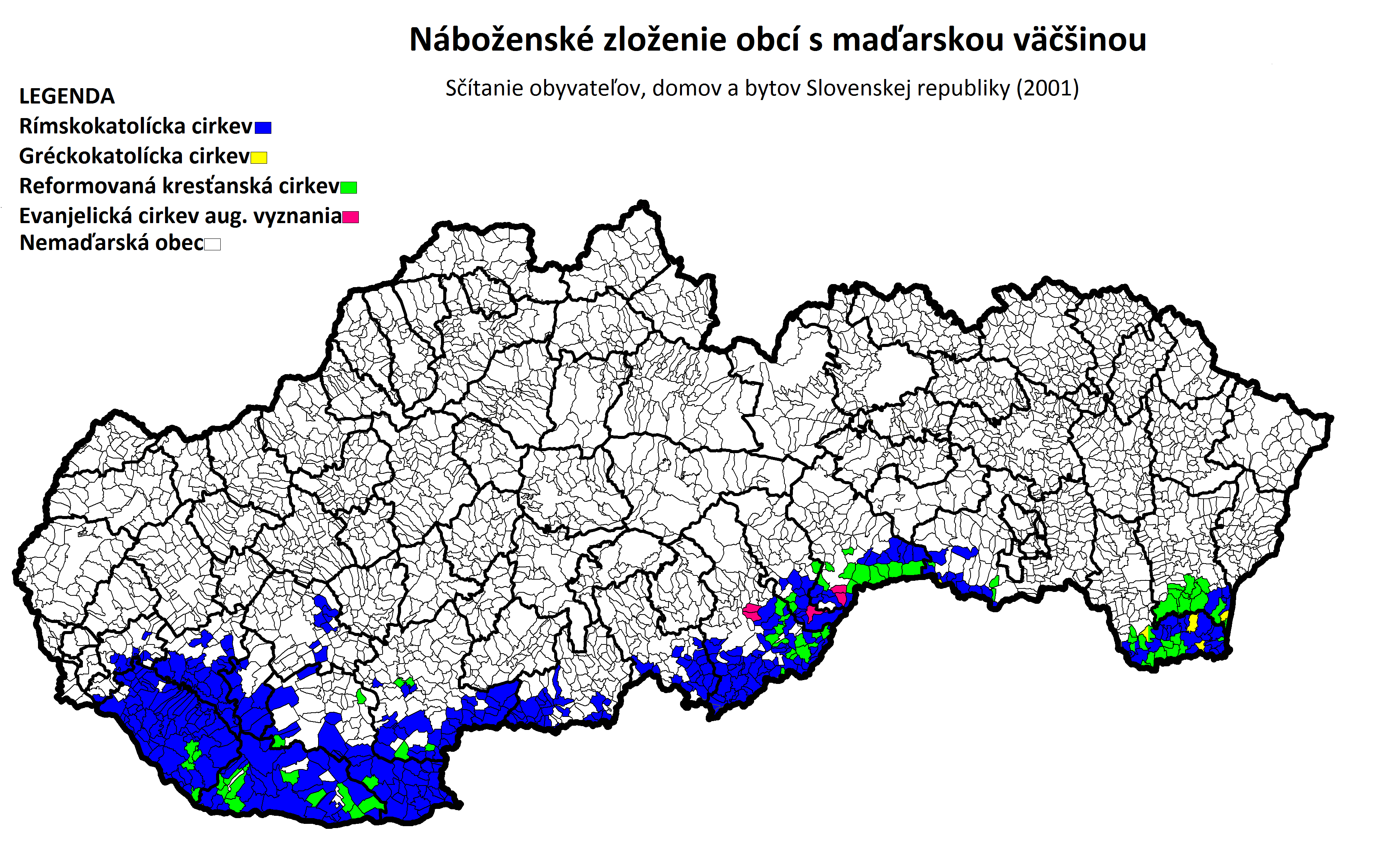 Religion of hungarian people in Slovakia.